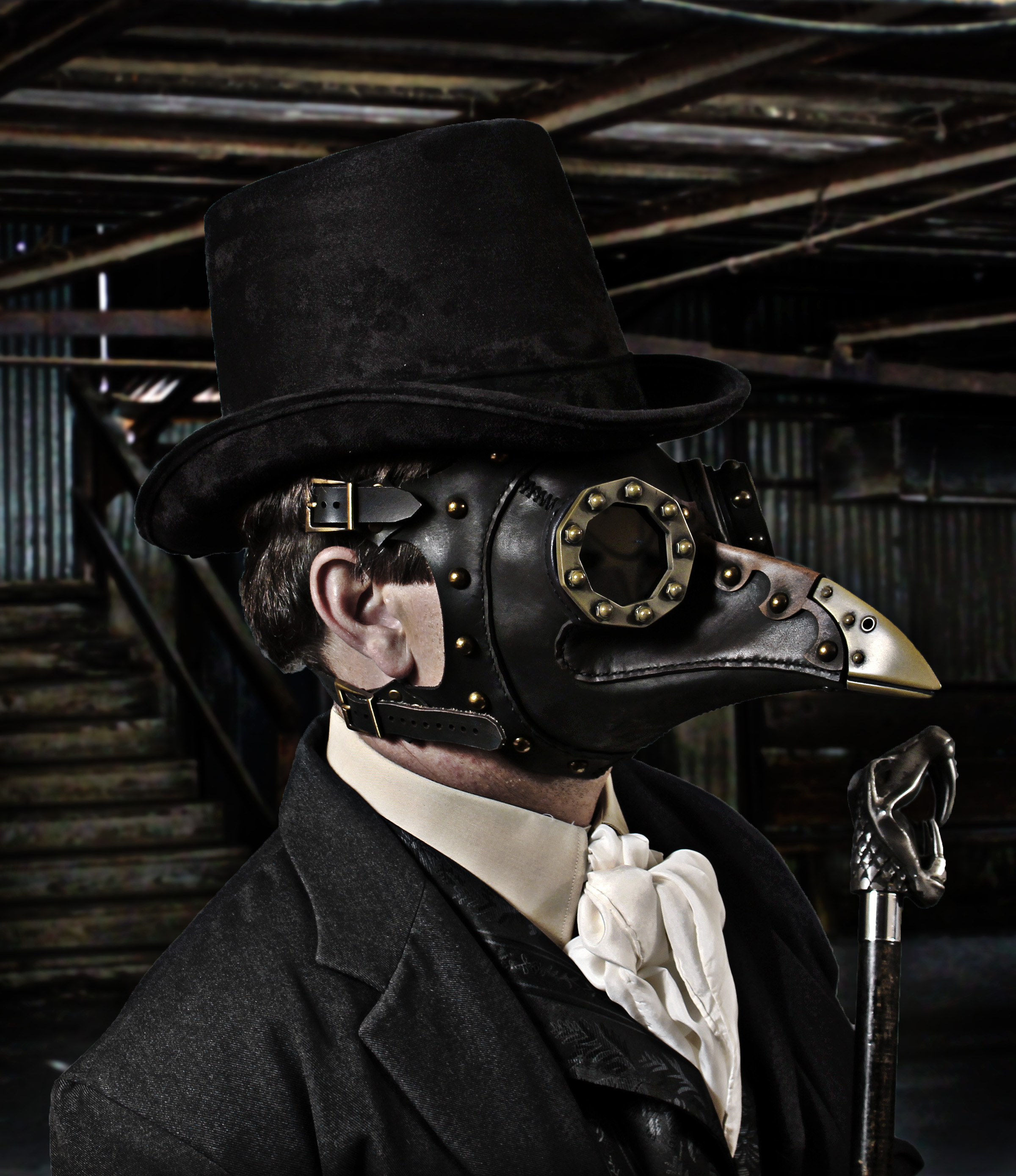 Character and leather mask by Tom Banwell